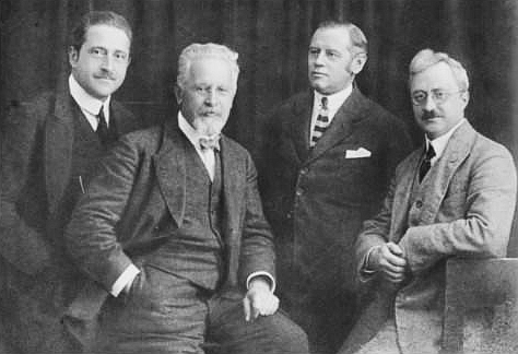 Rosé Quartet: L to R: Paul Fischer (violinist), Arnold Rosé, Anton Rusitzka, and Anton Walter (cellist)